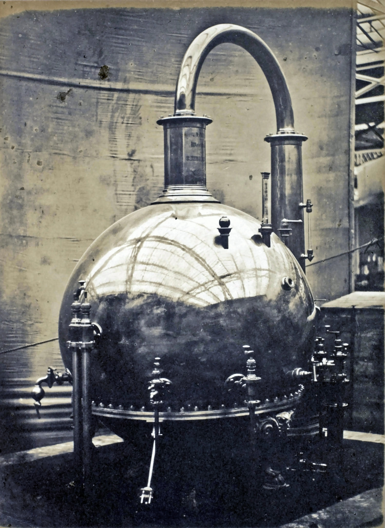 Mounted Calotype depicting a scene from the Great Exhibition of 1851. From Henry Fox Talbot's presentation report, Spicer Brothers, Wholesale Stationers, W. Clowes & Sons, Printers, 1852.